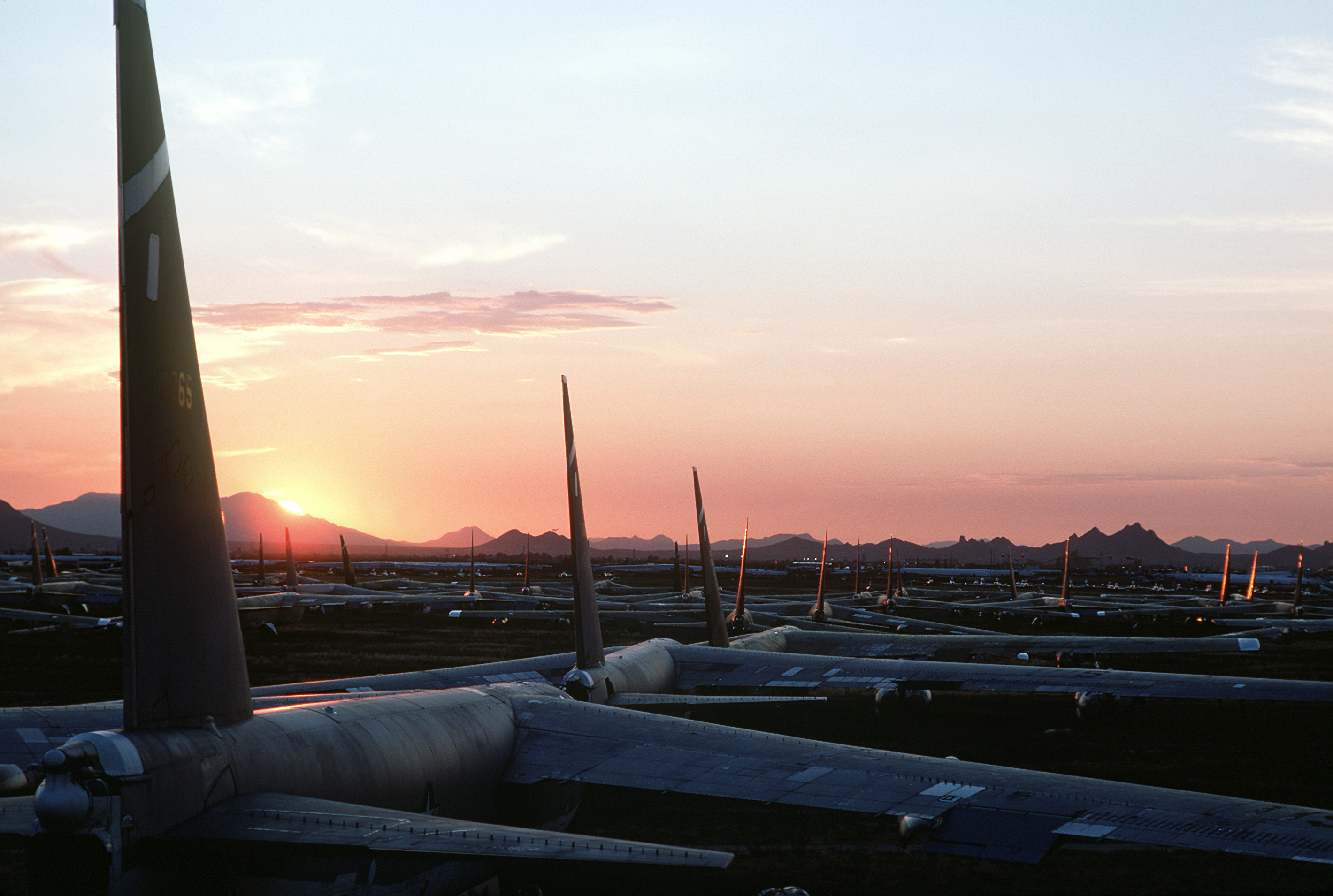 Dozens of B-52 Stratofortress aircraft are bathed in the glow of the setting sun as they sit on the desert floor at the Aerospace Maintenance and Regeneration Center. More than 2,500 aircraft from all services are stored at the center, only a small percentage of which are scrapped. Most of the aircraft are used for parts, returned to service, sold to foreign governments or donated to federal and state agencies.